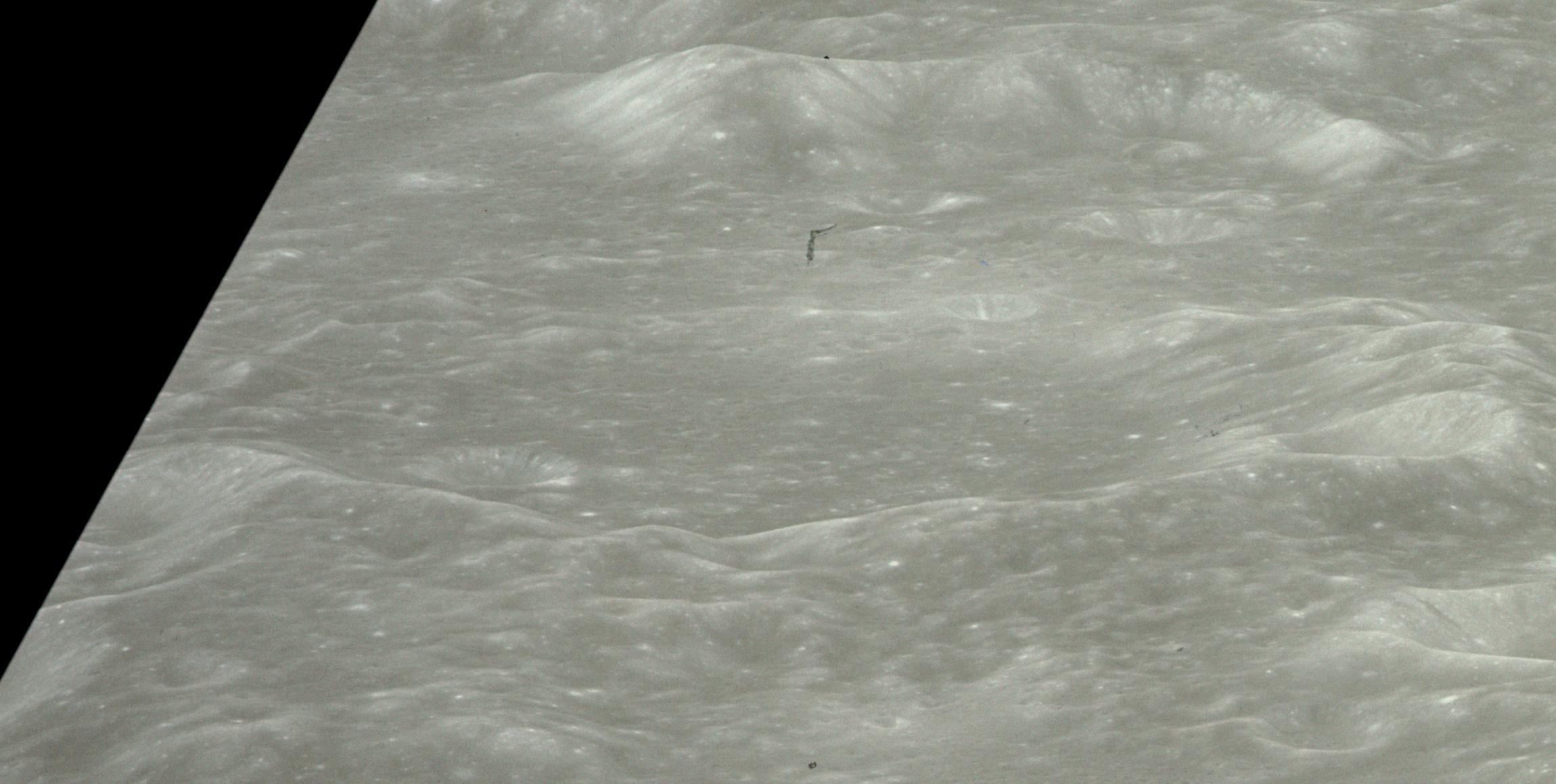 Highly oblique view of Tebbutt crater, south of Mare Crisium, on the moon. Rotated and cropped, then brightness and contrast adjusted from original.